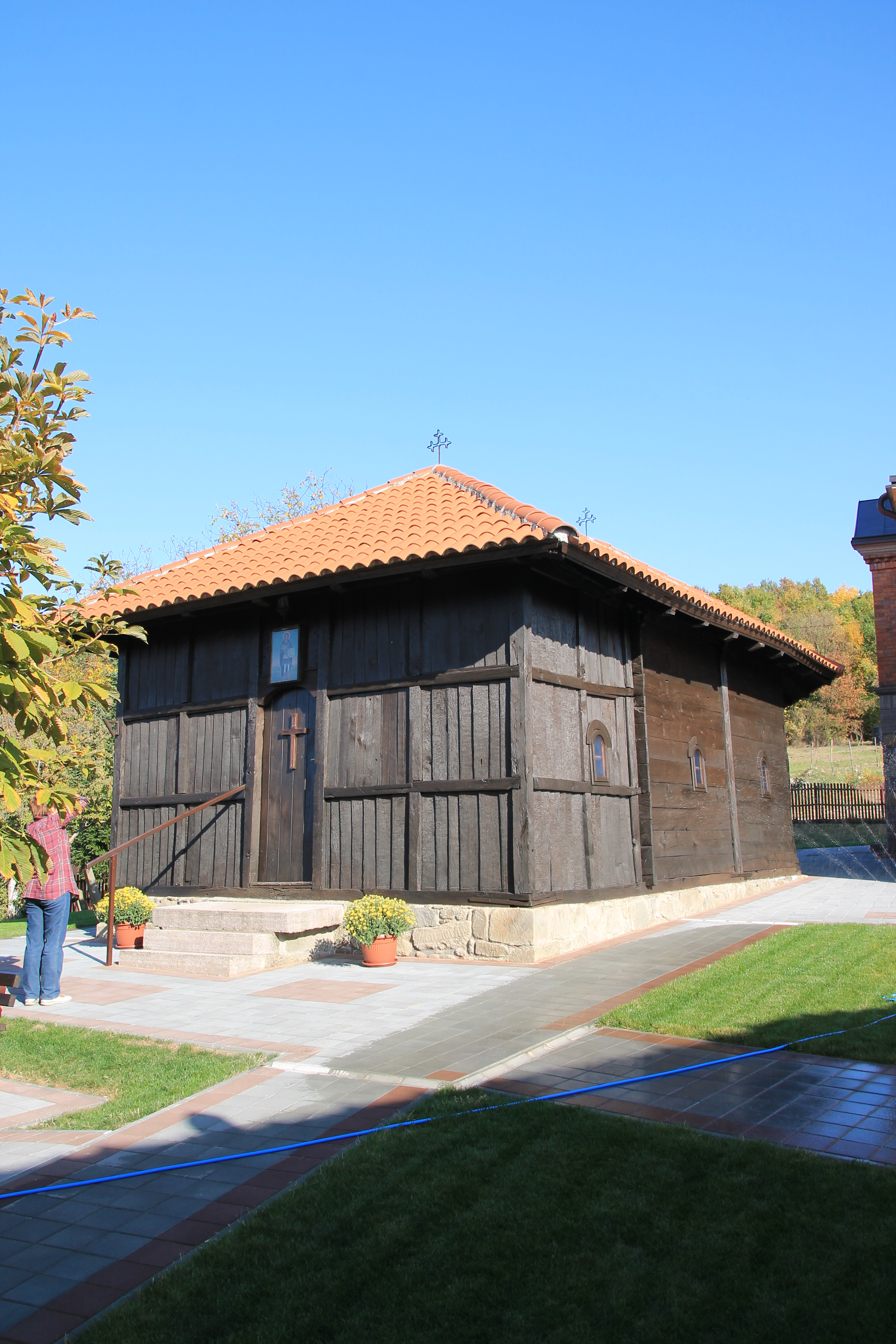 Voljavča Monastery (Bresnica)